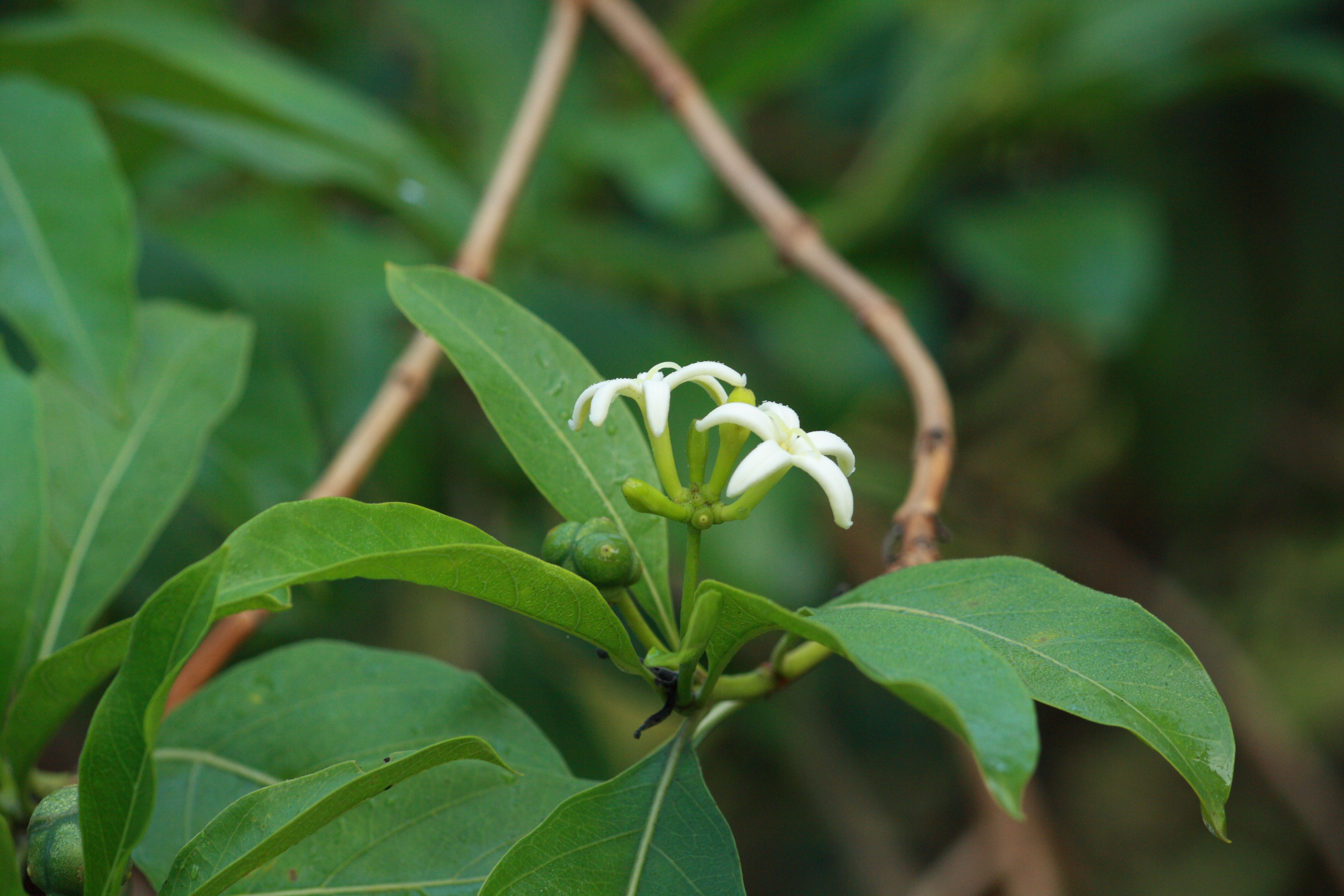 Fruits, flowers and leaves of Morinda Coreia